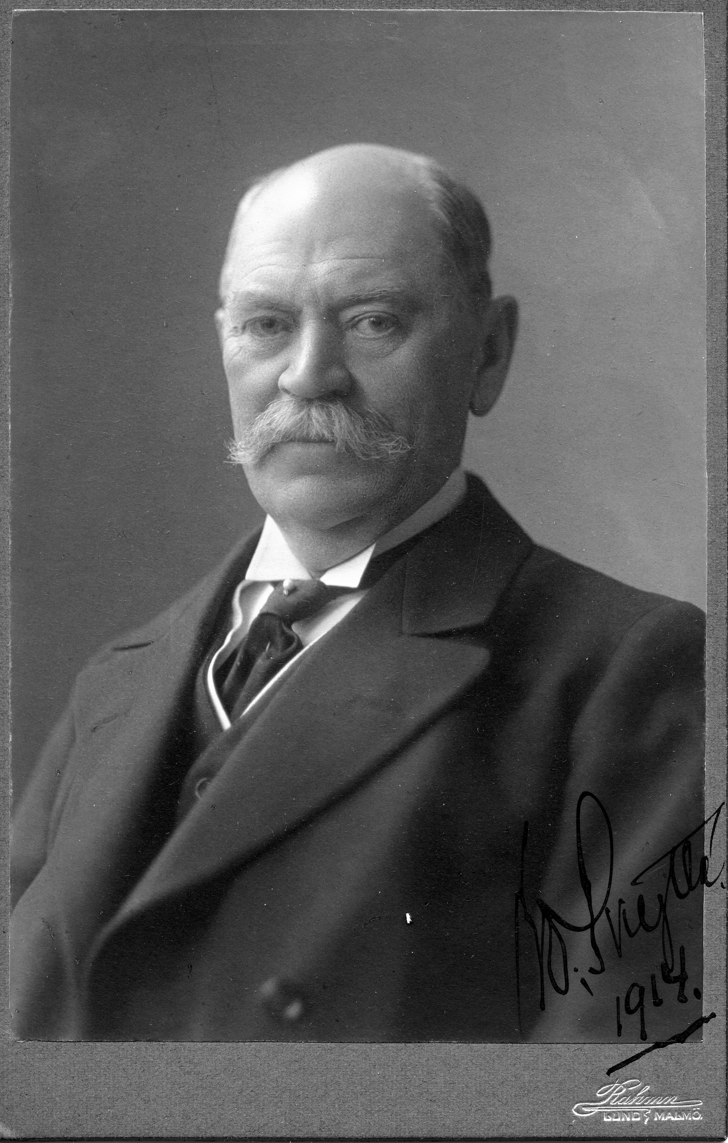 Wilhelm Skytte af Sätra